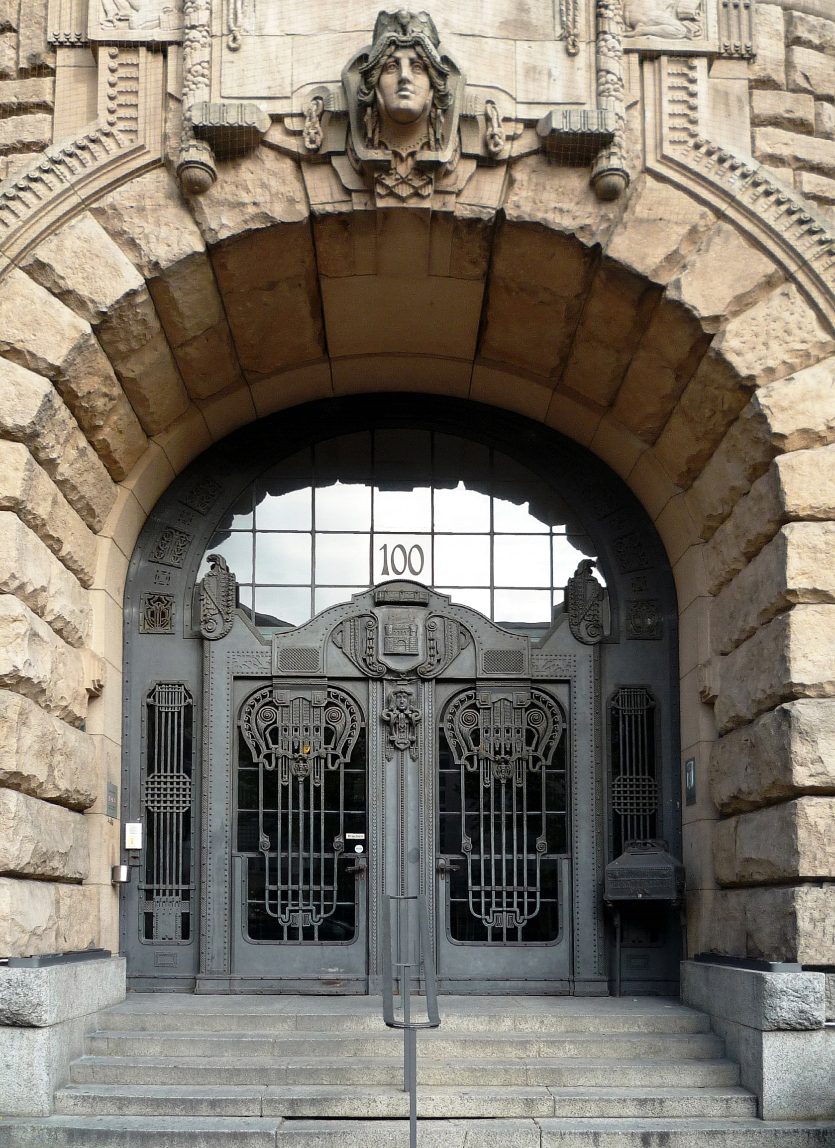 Berlin, city hall of Berlin-Charlottenburg, main entrance.